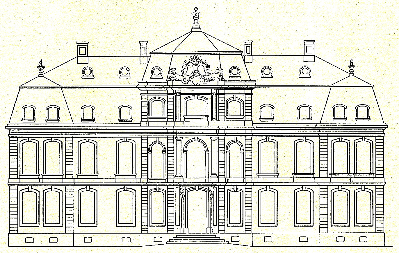 t